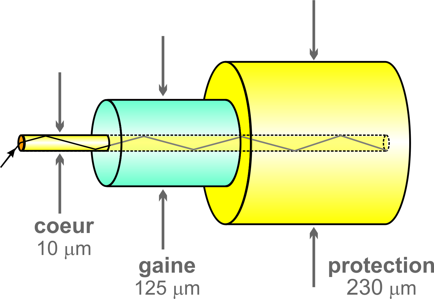 Principle of an optical fiber